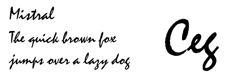 english pangram in typeface Mistral